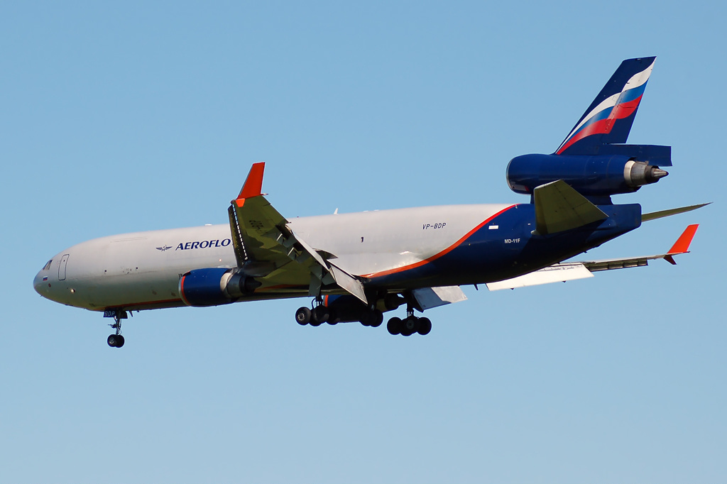 An Aeroflot-Cargo McDonnell Douglas MD-11F at Sheremtyevo International Airport (SVO / UUEE)